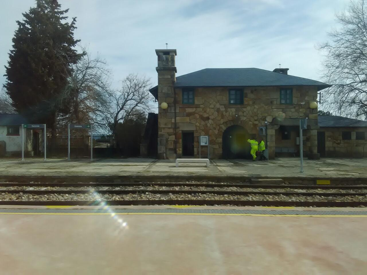 Linarejos-Pedroso station in Coruña-Zamora railway (Spain)